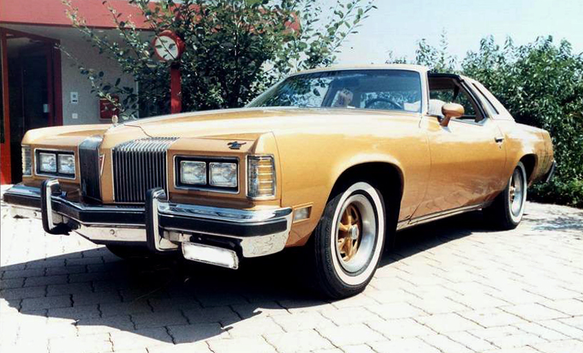 Pontiac Grand Prix LJ Golden Anniversary Edition (1976). 4807 Examples built. Hurst Hatch glass panels, Rally II wheels & 400 c.i. & V-8 engine are standard equipment. White side trim & scripts missing